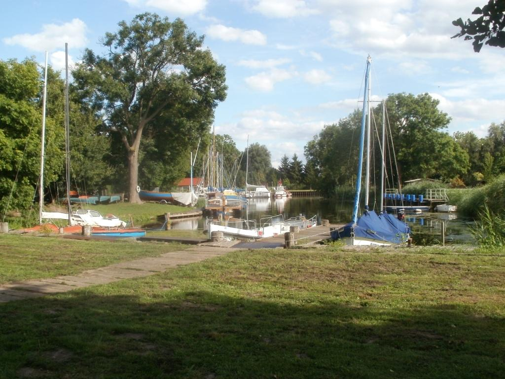 Natural Port in Ueckermünde, Mecklenburg-Vorpommern /Germany, where the River Uecker empties into the Oder Lagoon.